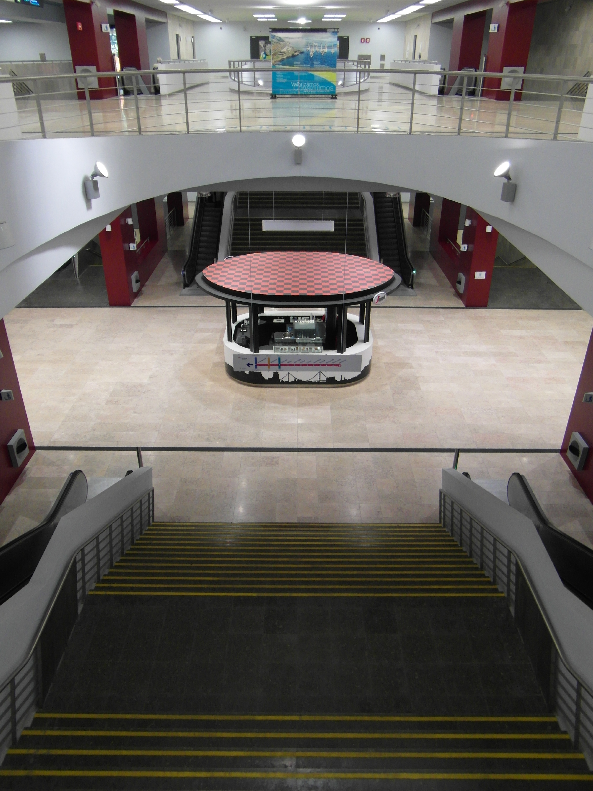 Aeroporto underground station of the Lisbon Metro, Lisbon, Portugal